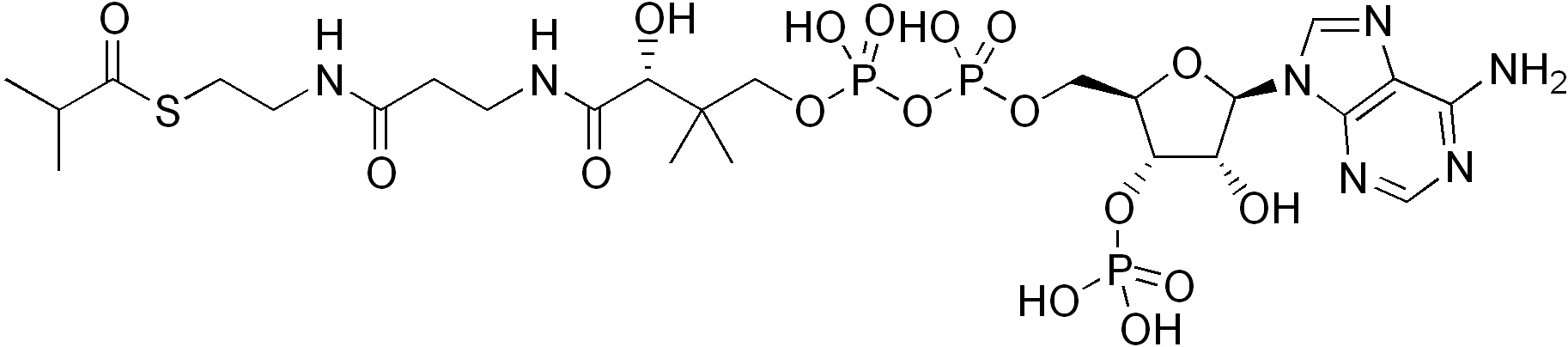 chemical structure of Isobutyryl-coenzyme A